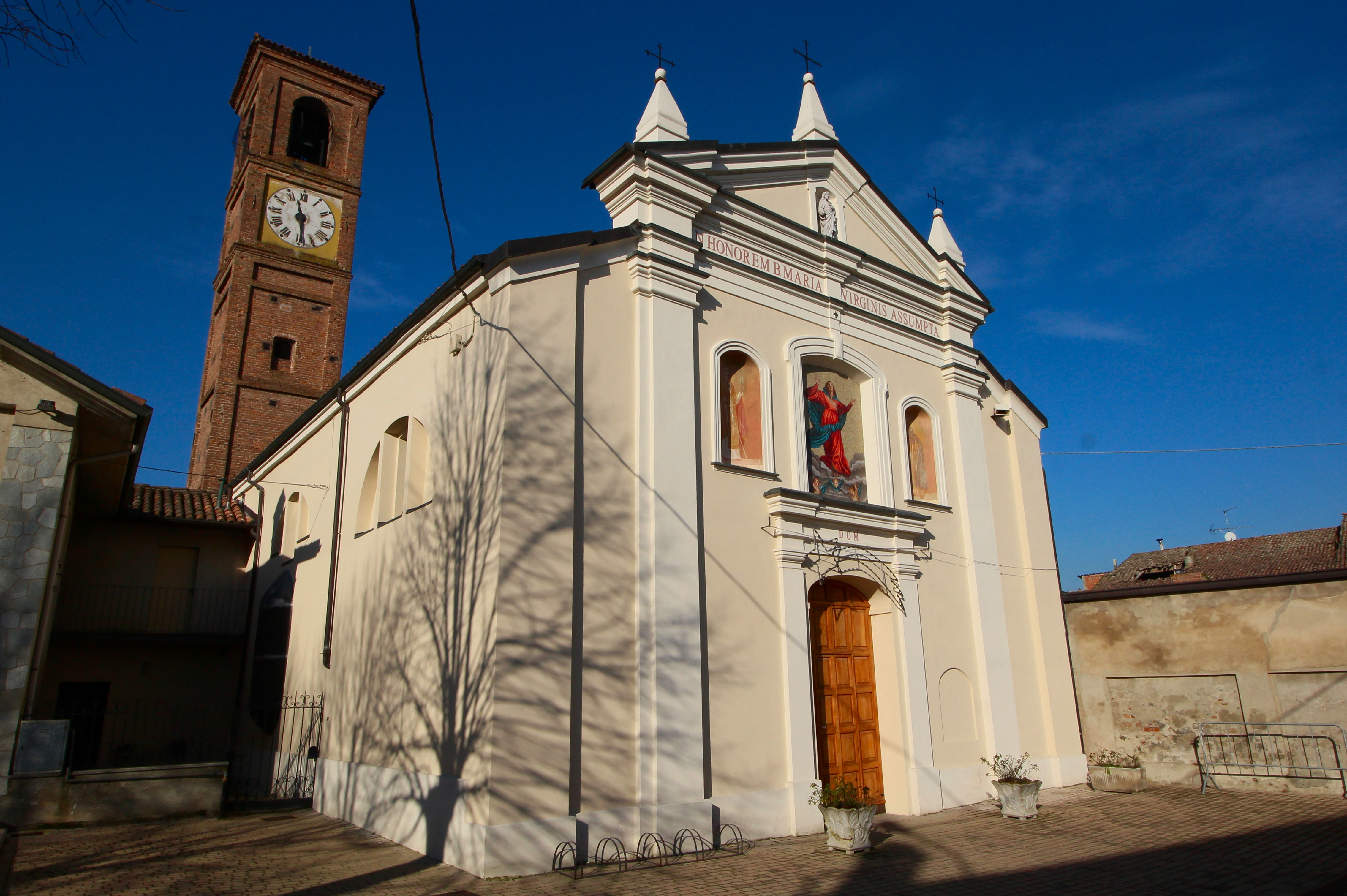 church Santa Maria Assunta, Guazzora, Province of Alessandria, Piedmont, Italy